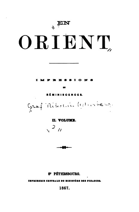 Book cover of Nikolai Adlerberg's En Orient, les impressions et Reminiscences published in Saint Petersburg in 1867